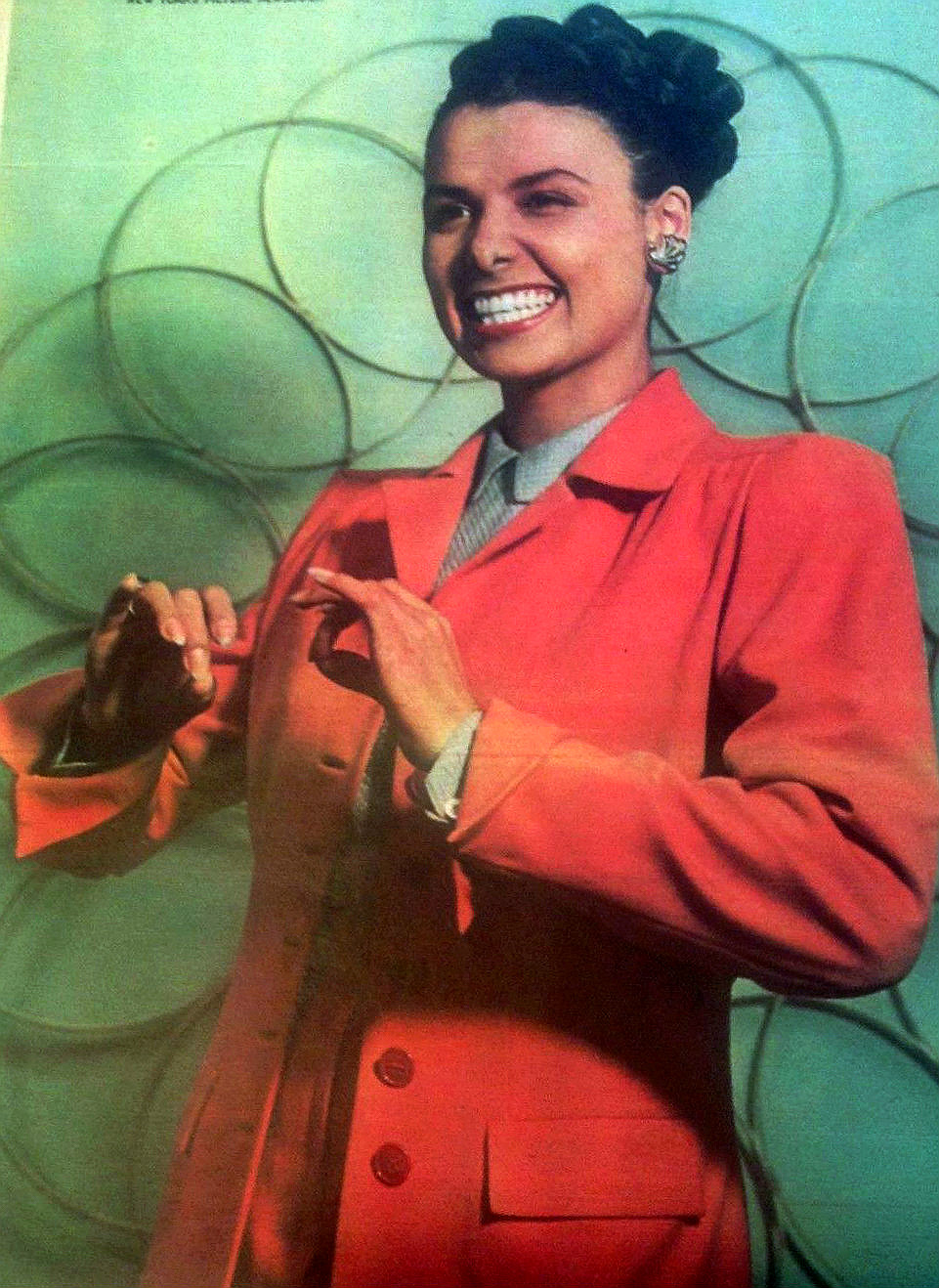 Photo of Lena Horne from The New York Sunday News.